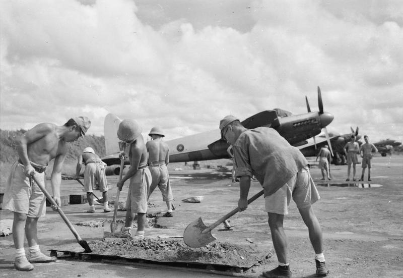 Japanese prisoners of war working to repair the taxiing strip at Saigon airfield, Vietnam, December 1945.